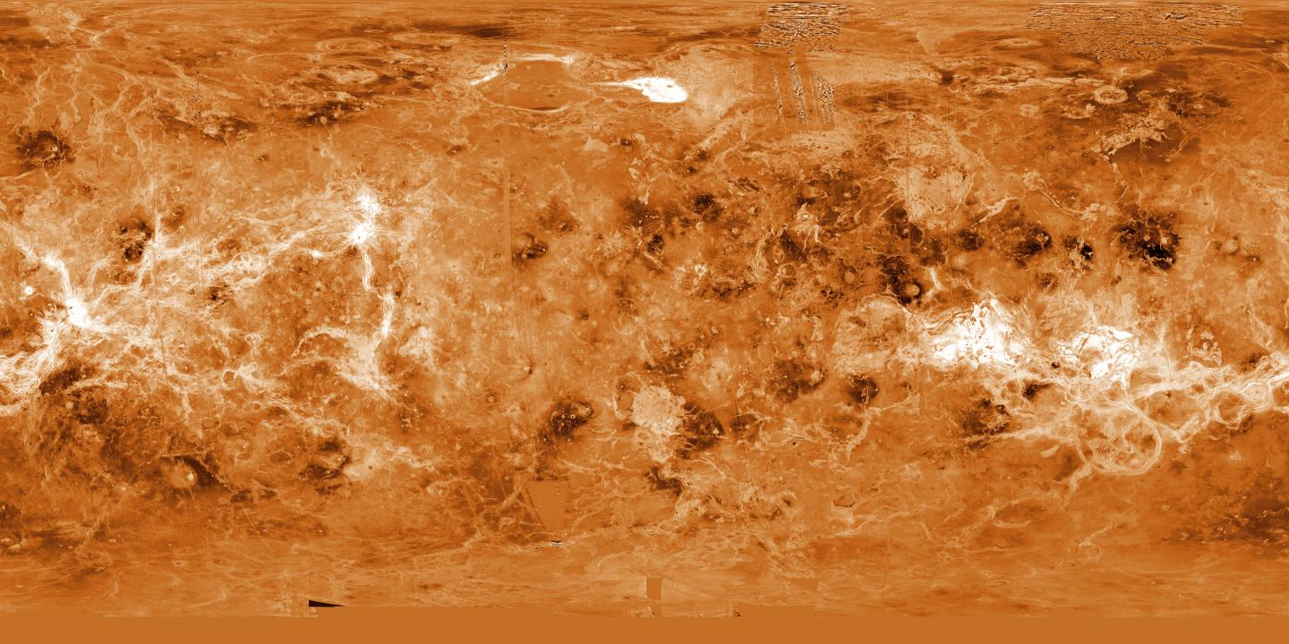 Stitched from Magellan RADAR imagery. Gaps filled in with Pioneer Venus Orbiter and Venera 13/14 images. Resolution 4 pixels per degree